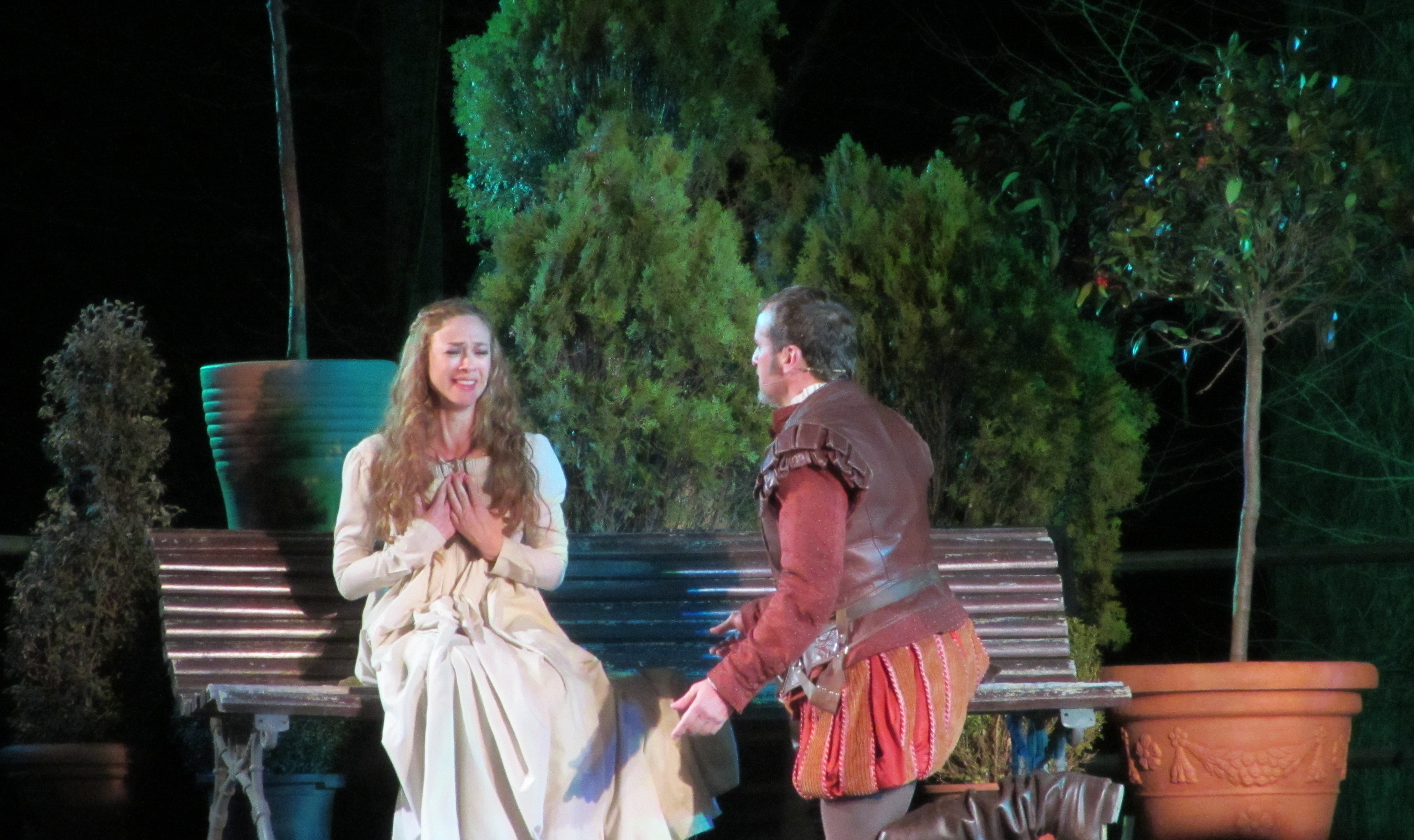 Theatrical performance of Don Juan Tenorio in Alcalá de Henares on November 1, 2014. Scene between Doña Ines de Ulloa (Marta Hazas) and Don Juan Tenorio (Fernando Cayo) developed outdoors in the walled recite the Archbishop's Palace.